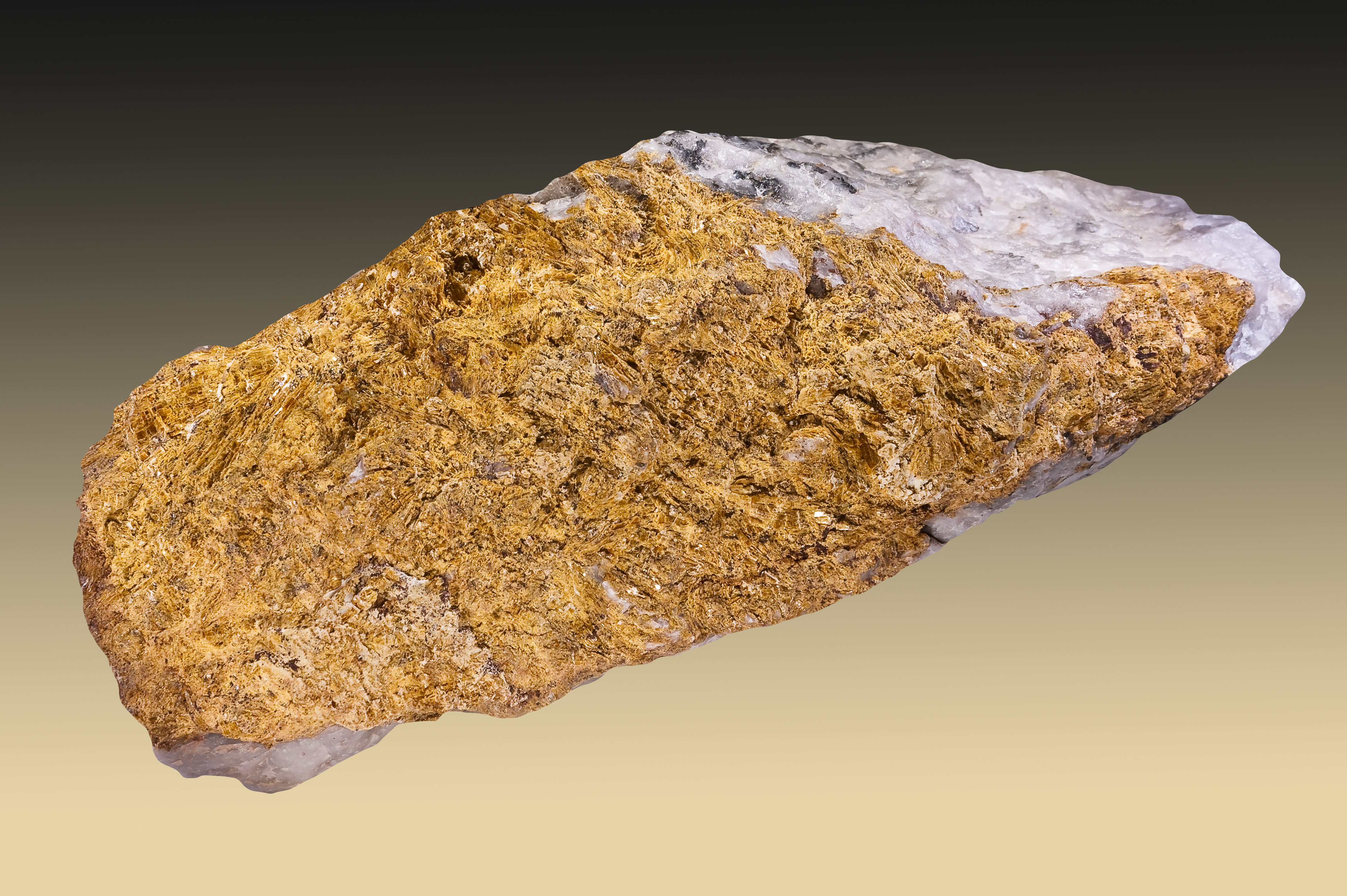 Ardennite-(As) Locality: Salm-Château, Vielsalm, Stavelot Massif, Luxembourg Province, Belgium. Type Locality. Size: 14x6x5 cm.